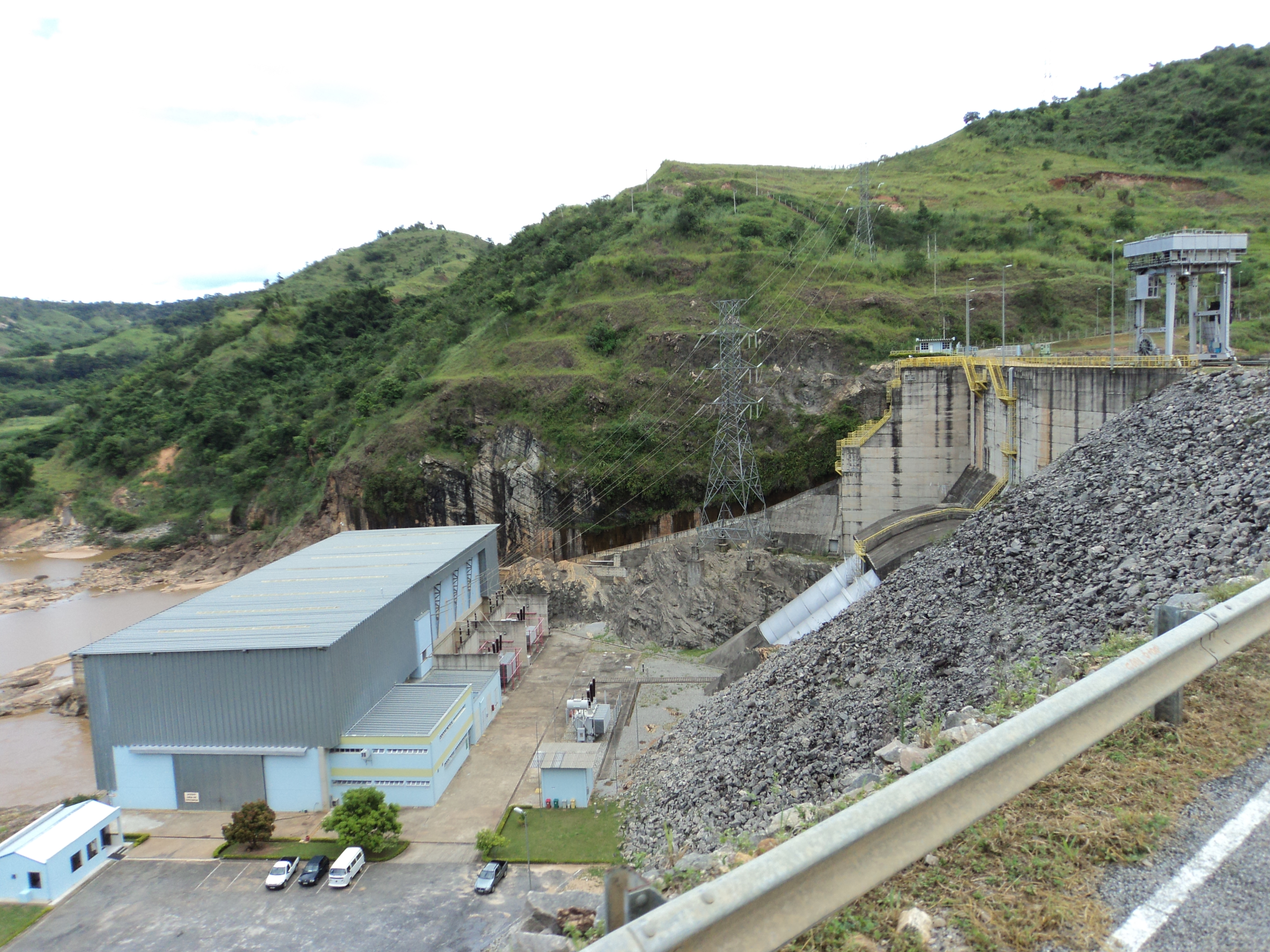 Partial view of the Porto Estrela Dam, in Joanésia, Minas Gerais, Brazil.